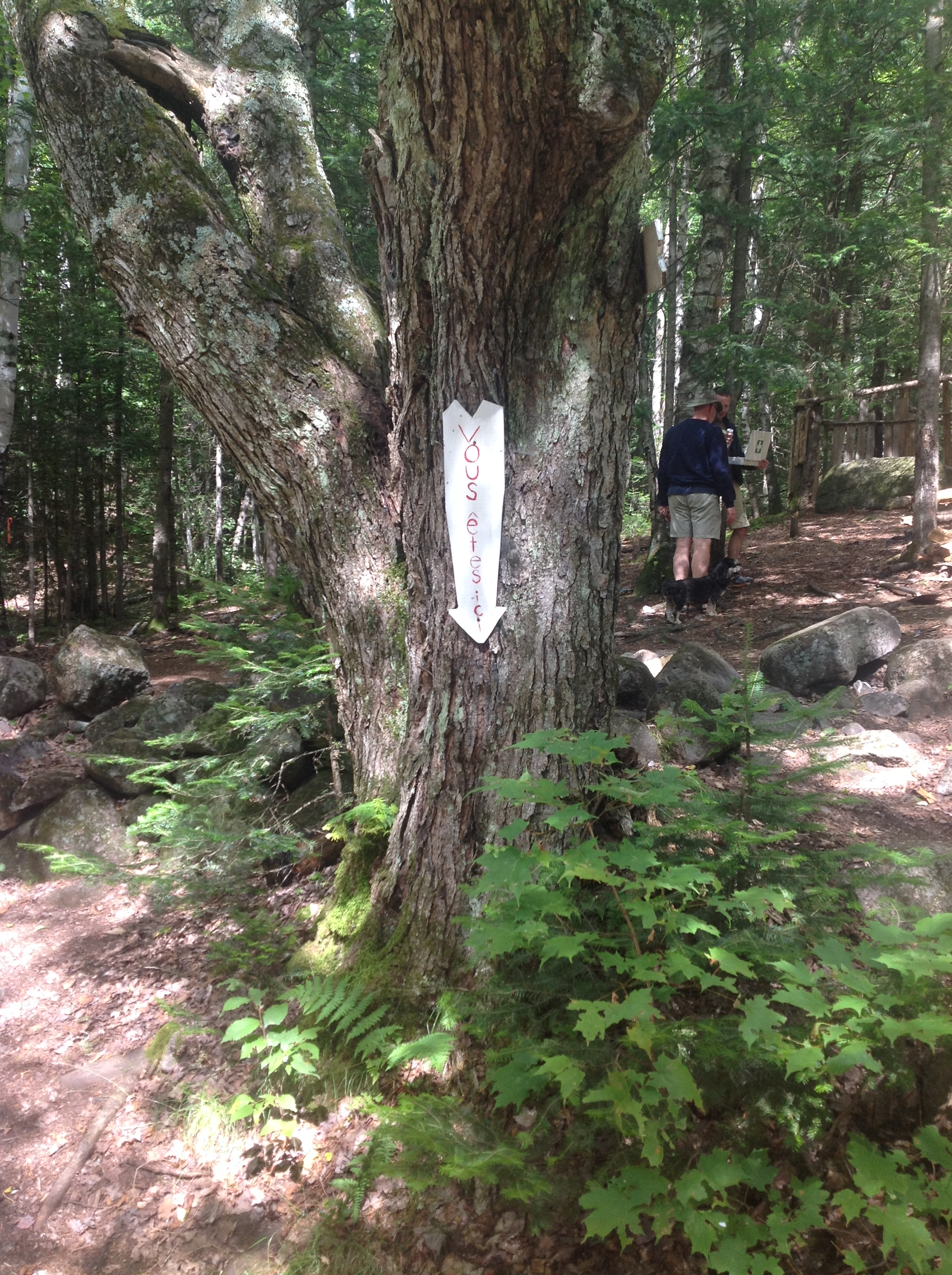 "You Are Here" sign at Camp Olier, Sainte-Anne-des-Lacs, QC, Canada. The sign is on a tree adjacent to a trail.